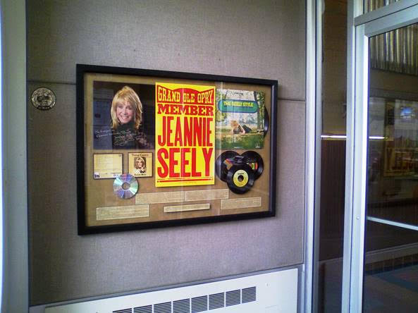 A display inside of the original Titusville Trust Company building, demonstrating the work of country artist Jeannie Seely. Seely had once been employer at the original company before moving to Nashville, Tennessee (2010s)